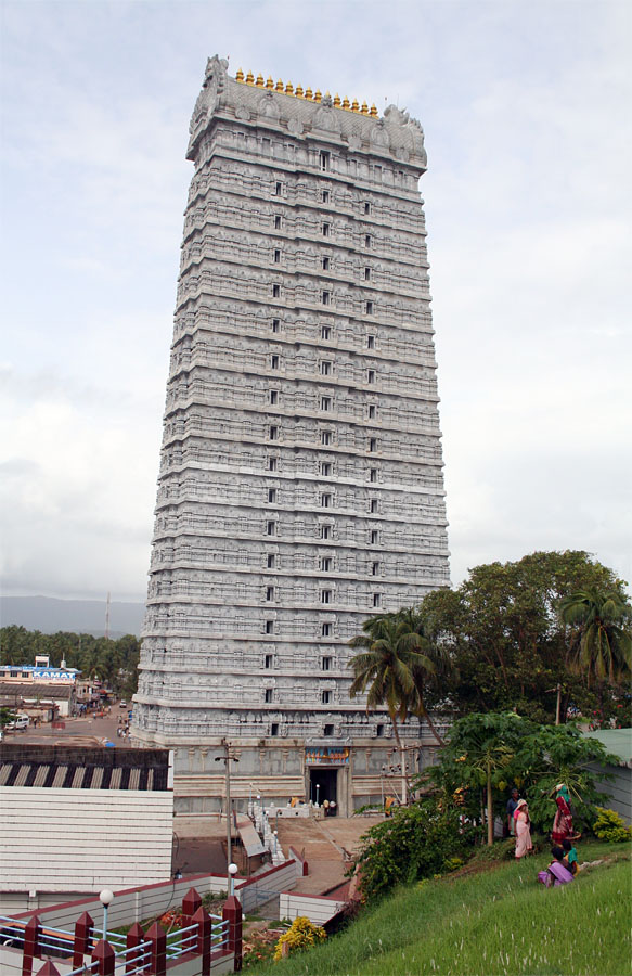 Gopuram (entrance tower) at Murudeshwar Temple, North Karnataka